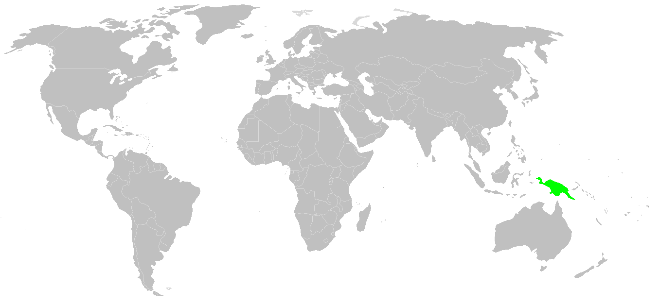 Known world distribution of Saitissus squamosus.